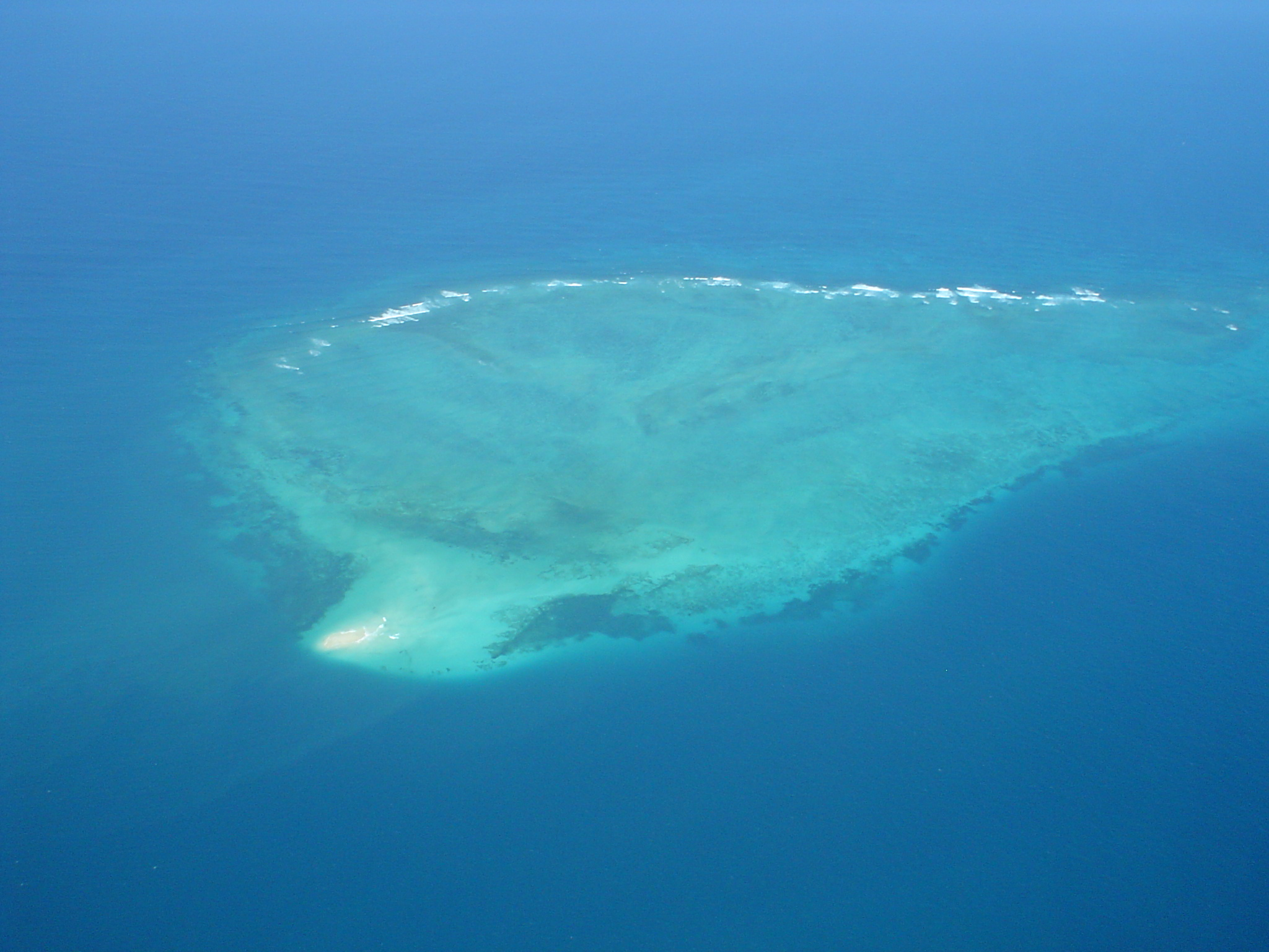 Fungu Yasini island is just north of Dar es Salaam on Tanzania's Indian Ocean coast (Zanzibar Channel), some 3 miles offshore. The island is just a tiny sand bank, visible in the lower left corner, surrounded by a large reef. It is part of the Dar es Salaan Marine Reserve.